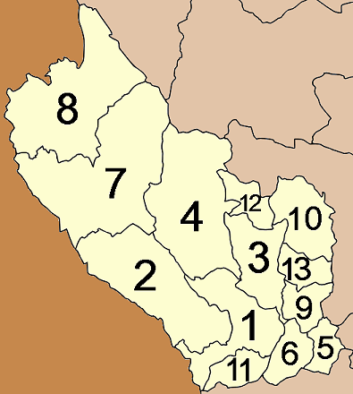 Map of the province Kanchanaburi with the districts (Amphoe) numbered. Mueang Kanchanaburi Sai Yok Bo Phloi Si Sawat Tha Maka Tha Muang Thong Pha Phum Sangkhla Buri Phanom Thuan Lao Khwan Dan Makham Tia Nong Prue Huai Krachao